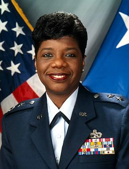 Maj. Gen. Mary L. Saunders, Official U.S. Air Force picture